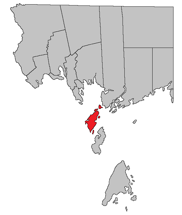 Location of West Iles Parish within Charlotte County, New Brunswick, Canada.